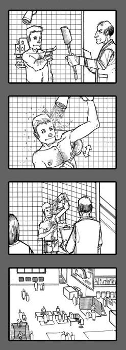 This was done as a possible TV commercial campaign for Taco Bell called "Tested on Animals". The idea was for Taco Bell Scientists to take college student subjects into their lab and study the further possibilities of the tacos. I worked under Jeffery Hyman's creative direction.